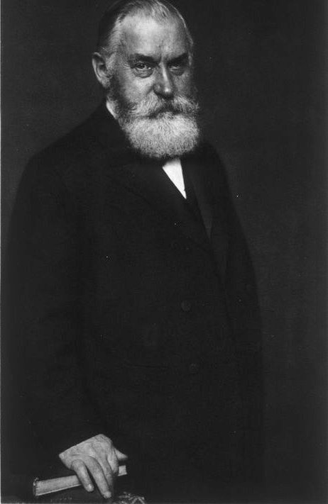 Vincenz Czerny, Austrian-German surgeon